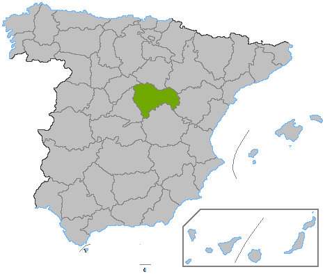 Location of the province of Guadalajara, in Spain. Basado en: ProvPont.jpg Source: Designed by Satesclop. Original picture, designed by Sobreira.